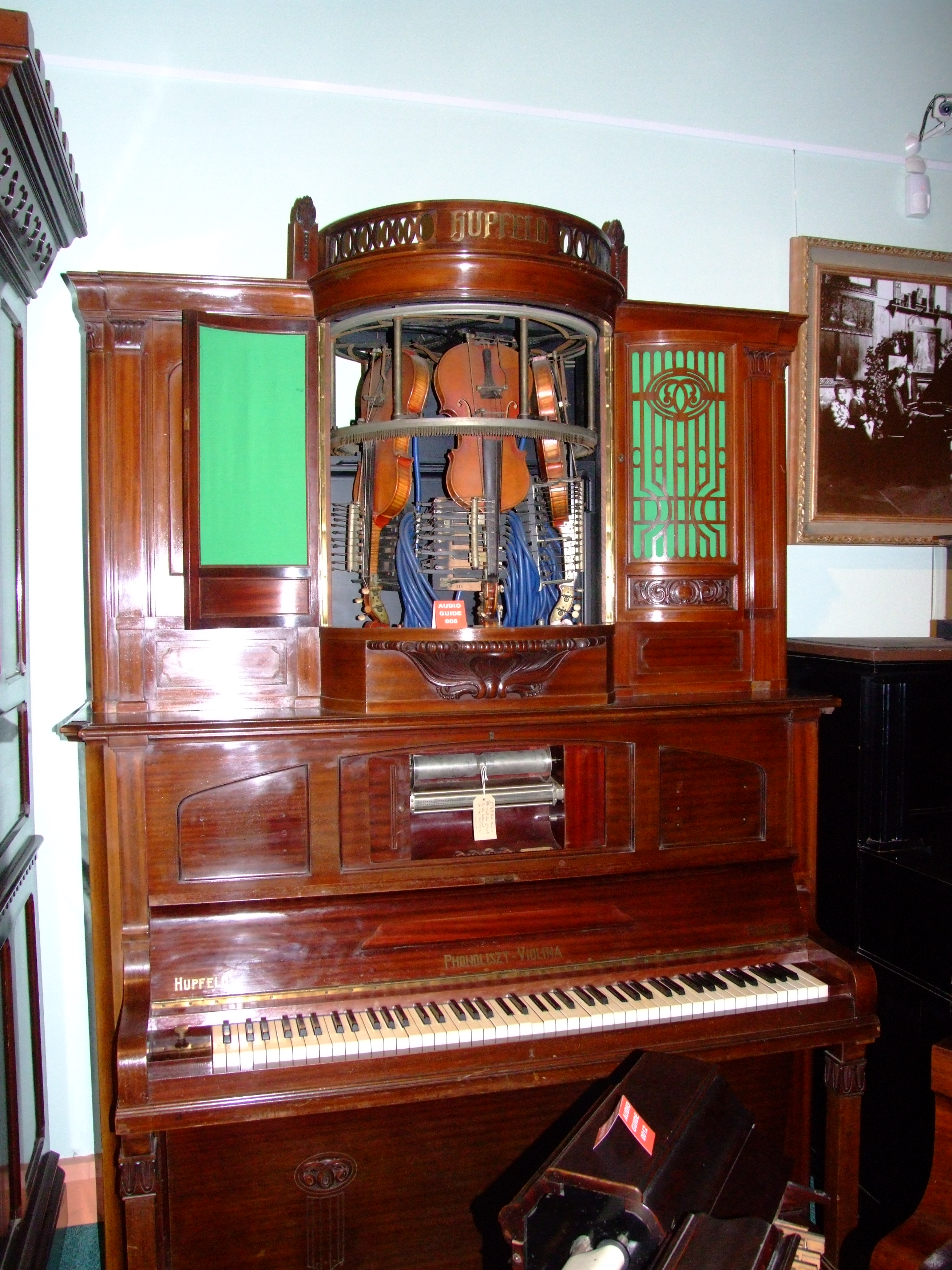 Hupfeld Phonoliszt-Violina Model B - Ornate Custom Case Somehow our modern digital all dancing singing keyboards are not quite so attractive to look at.